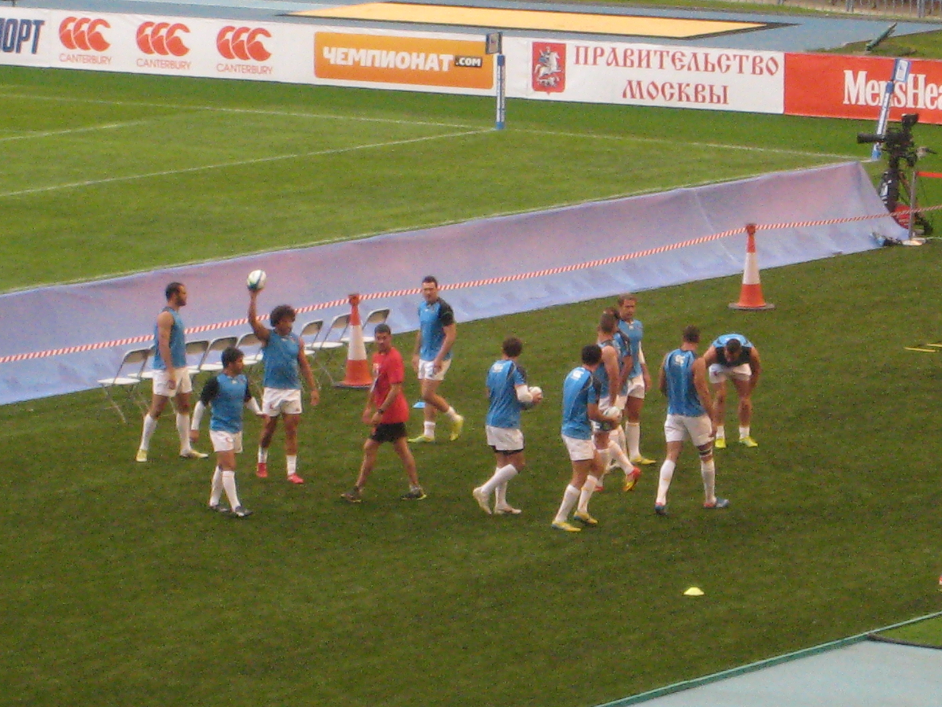 First Day of the 2013 Rugby World Cup Sevens in Moscow